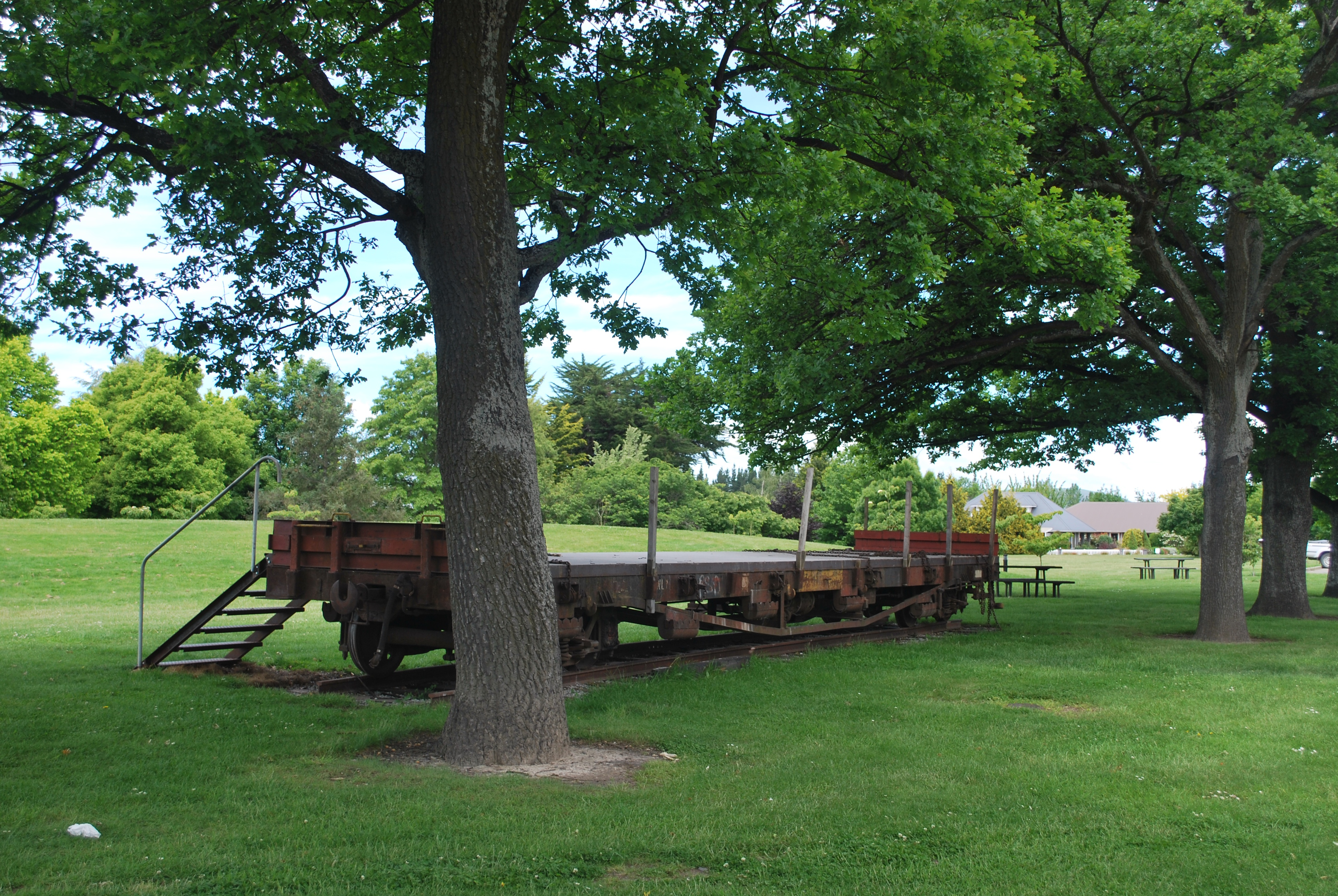 A rail wagon designed for carrying logs in Fairlie, New Zealand